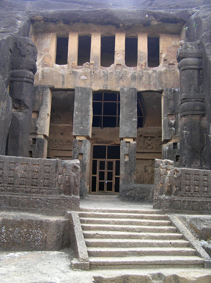 The entrance to the main cave